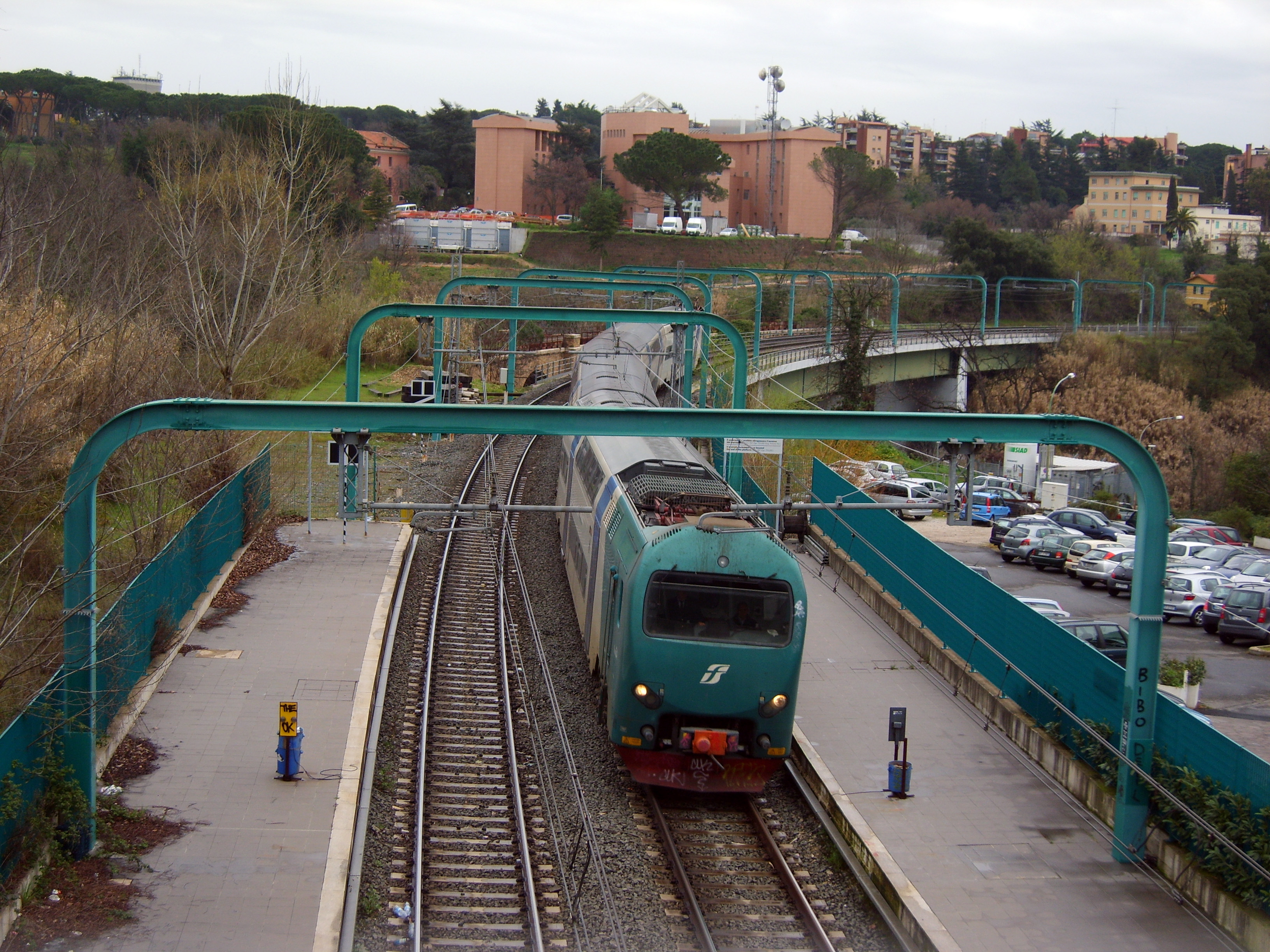 Roma - Capranica - Viterbo railway, near Gemelli Station